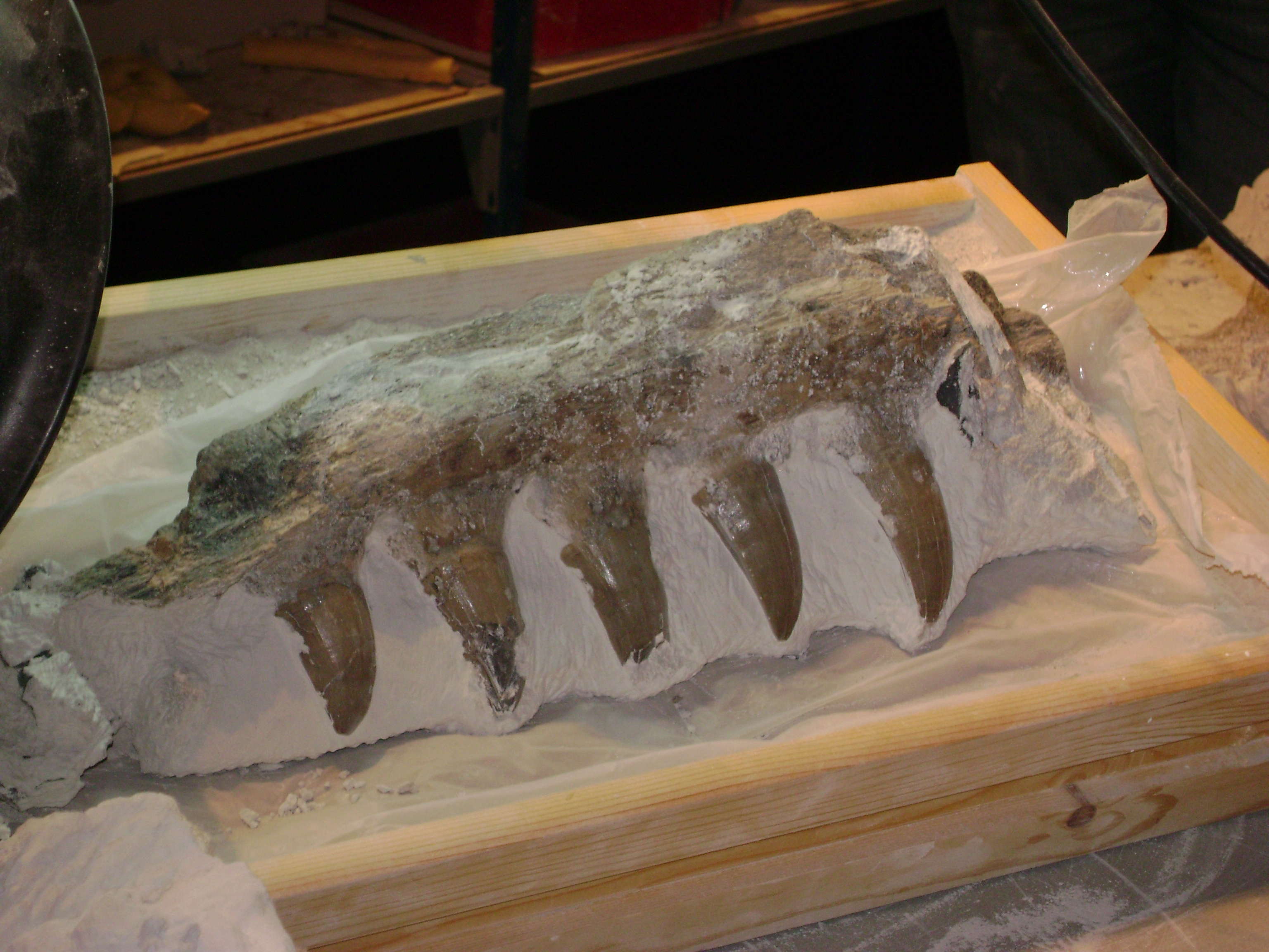 A jaw fragment of the "Carlo" exemplar, provisionally to be classified as a cf. Mosasaurus sp., found in September 2012, as being prepared in the Natural History Museum of Maastricht